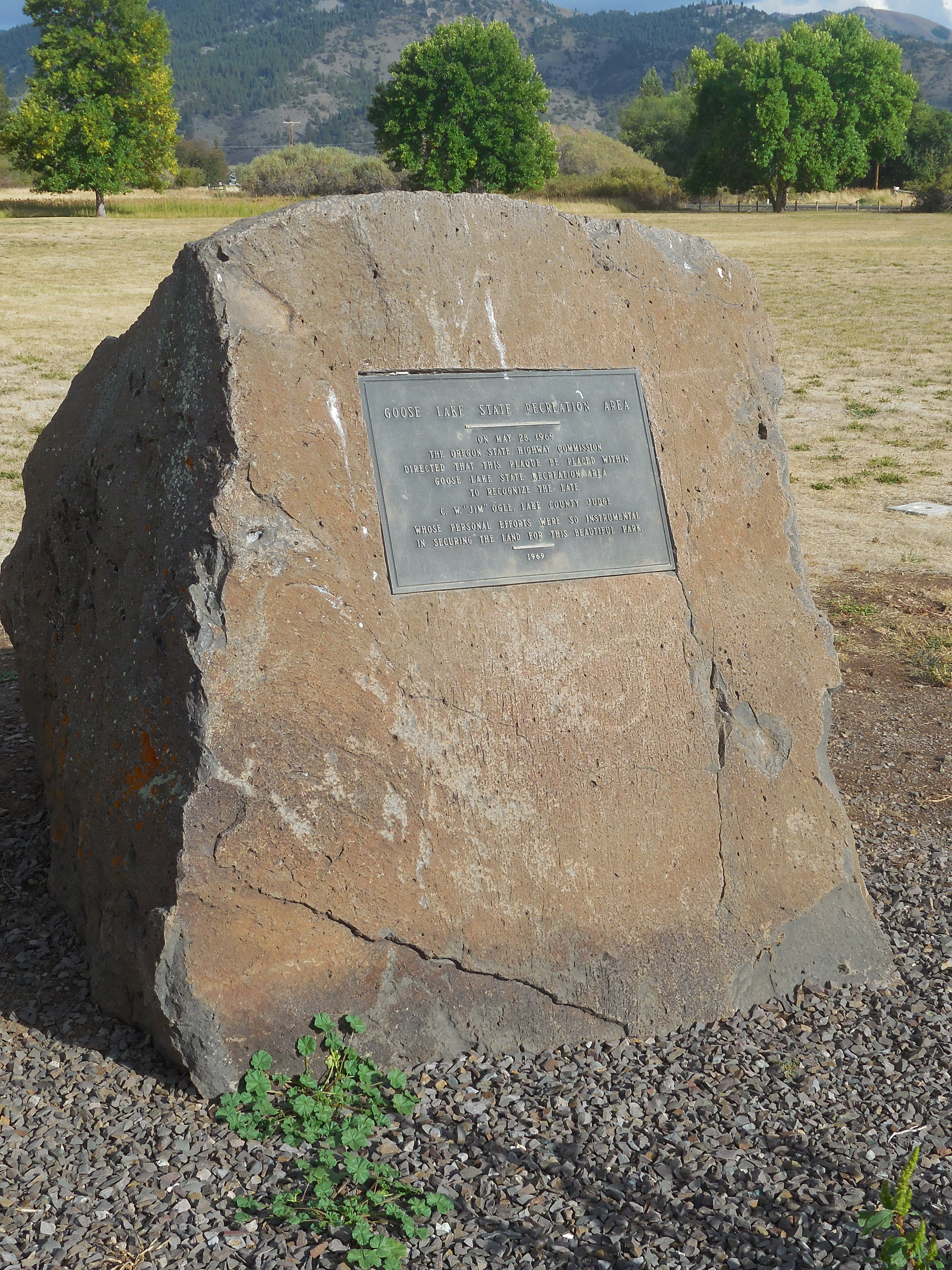 Memorial plaque at Goose Lake State Park honoring Judge C. W. "Jim" Ogle; the plaque was placed in the park on 28 March 1969